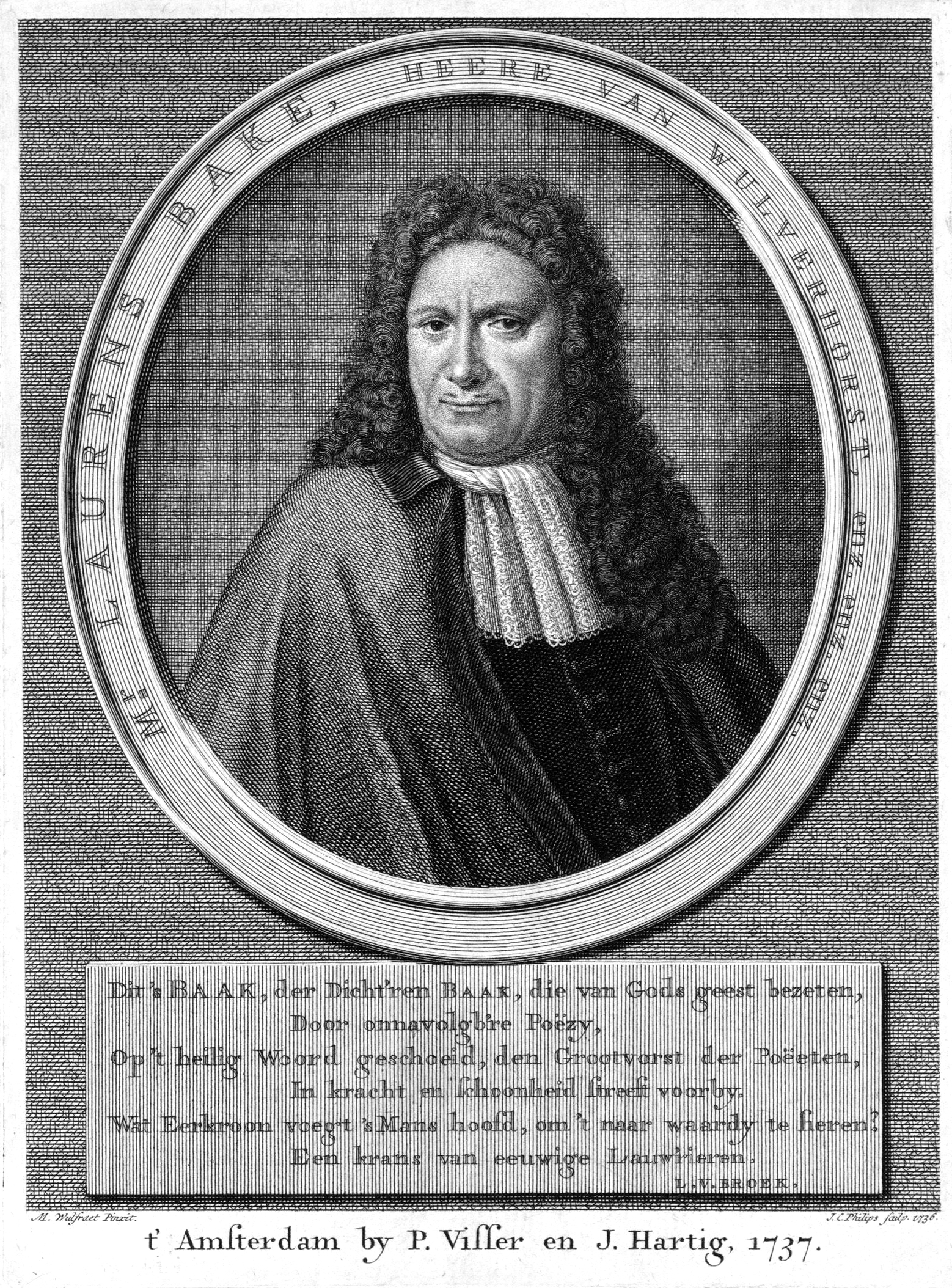 Laurens Bake, a.k.a Baeck (ca. 1650-1702) engraving 1737